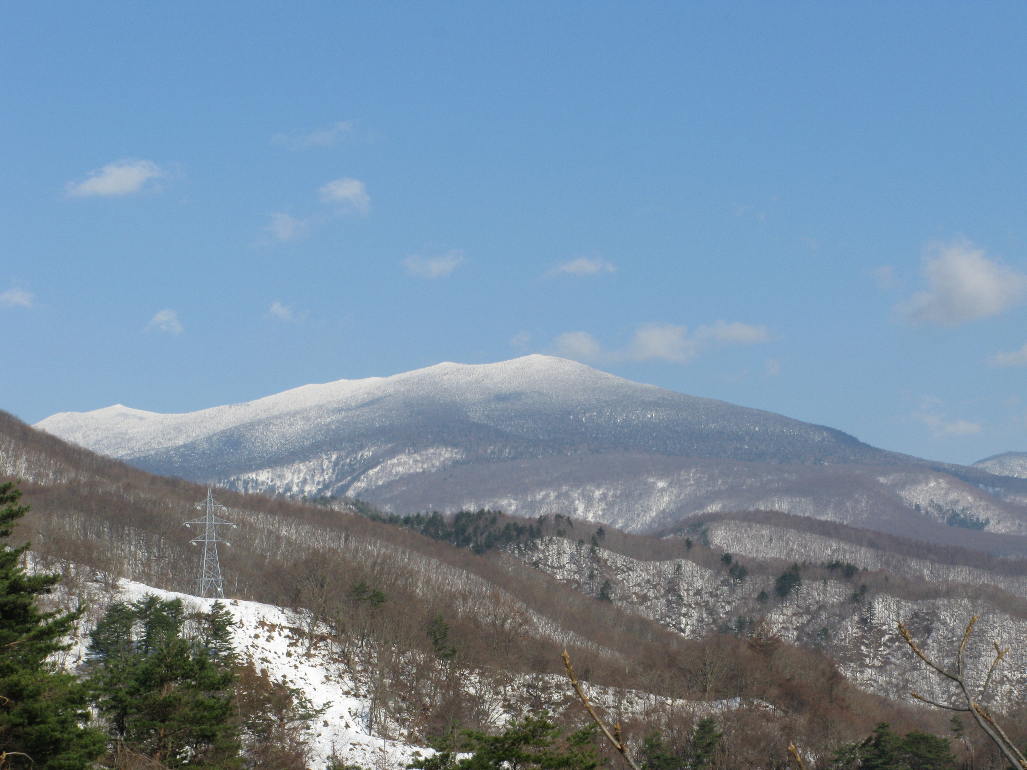 Mt. Nakaazuma-yama,Fukushima pref.,Japan